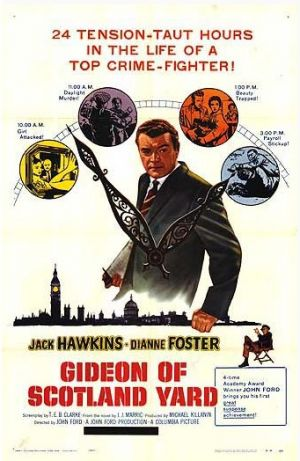 US theatrical poster for the film Gideon of Scotland Yard (1958)